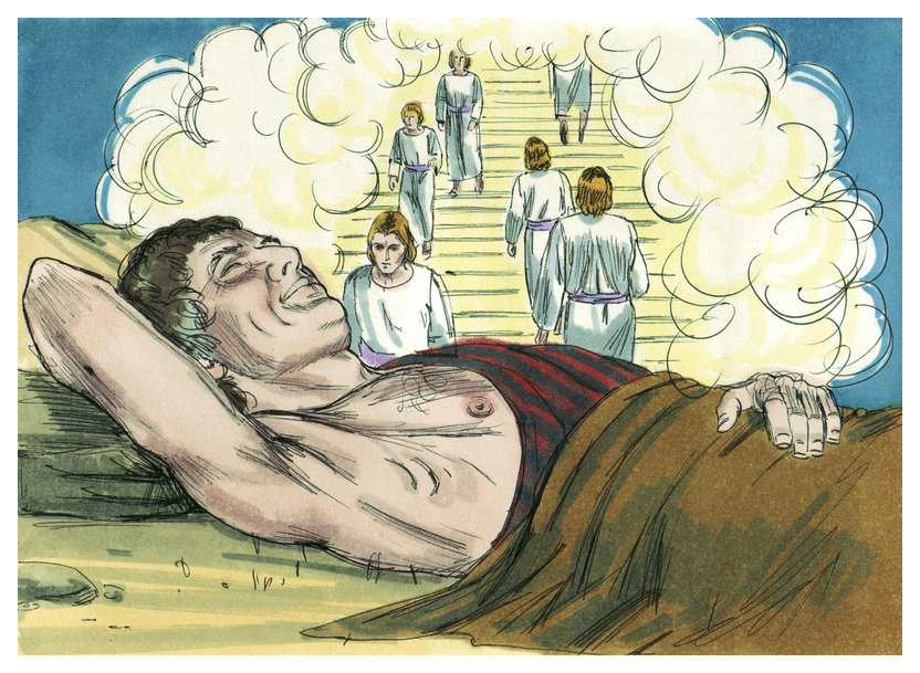 Biblical illustration of Book of Genesis Chapter 28